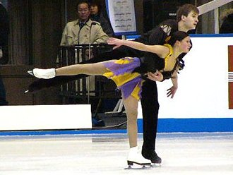 Tatiana Volosozhar and Petr Kharchenko at the 2003 NHK Trophy.